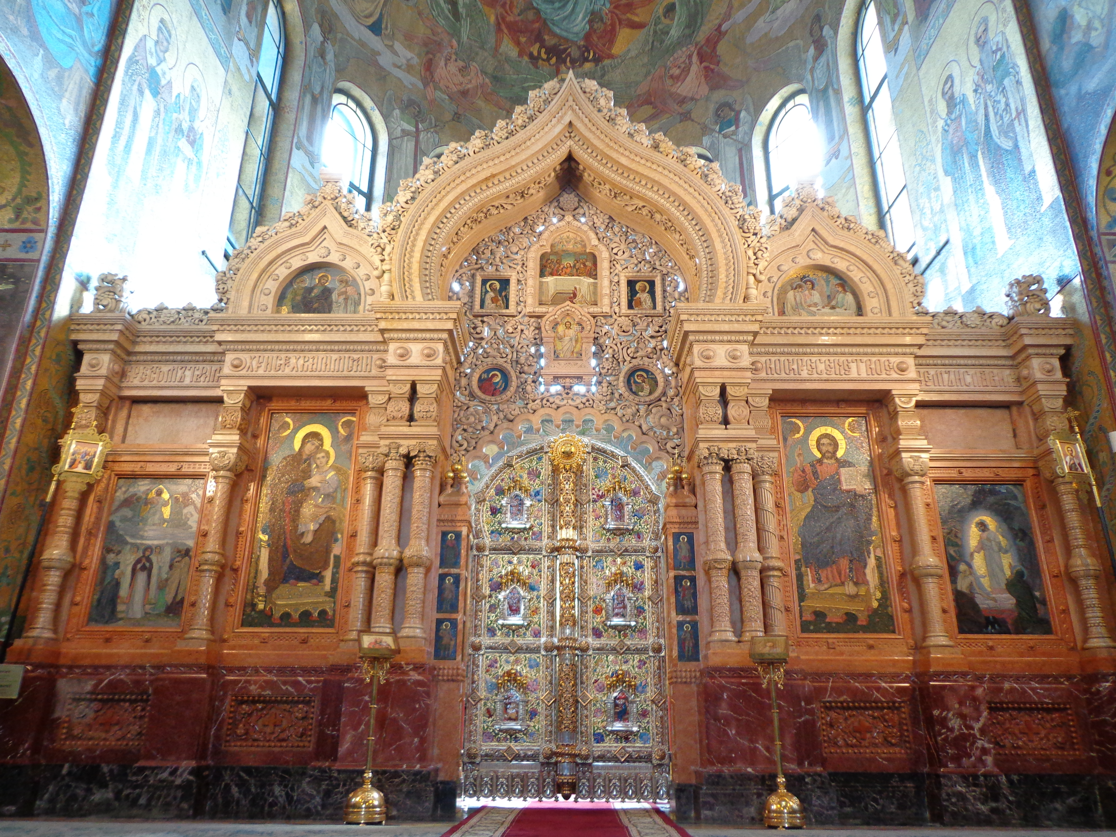 Iconostase of the Church of the Saviour on the Blood, Saint-Petersburg